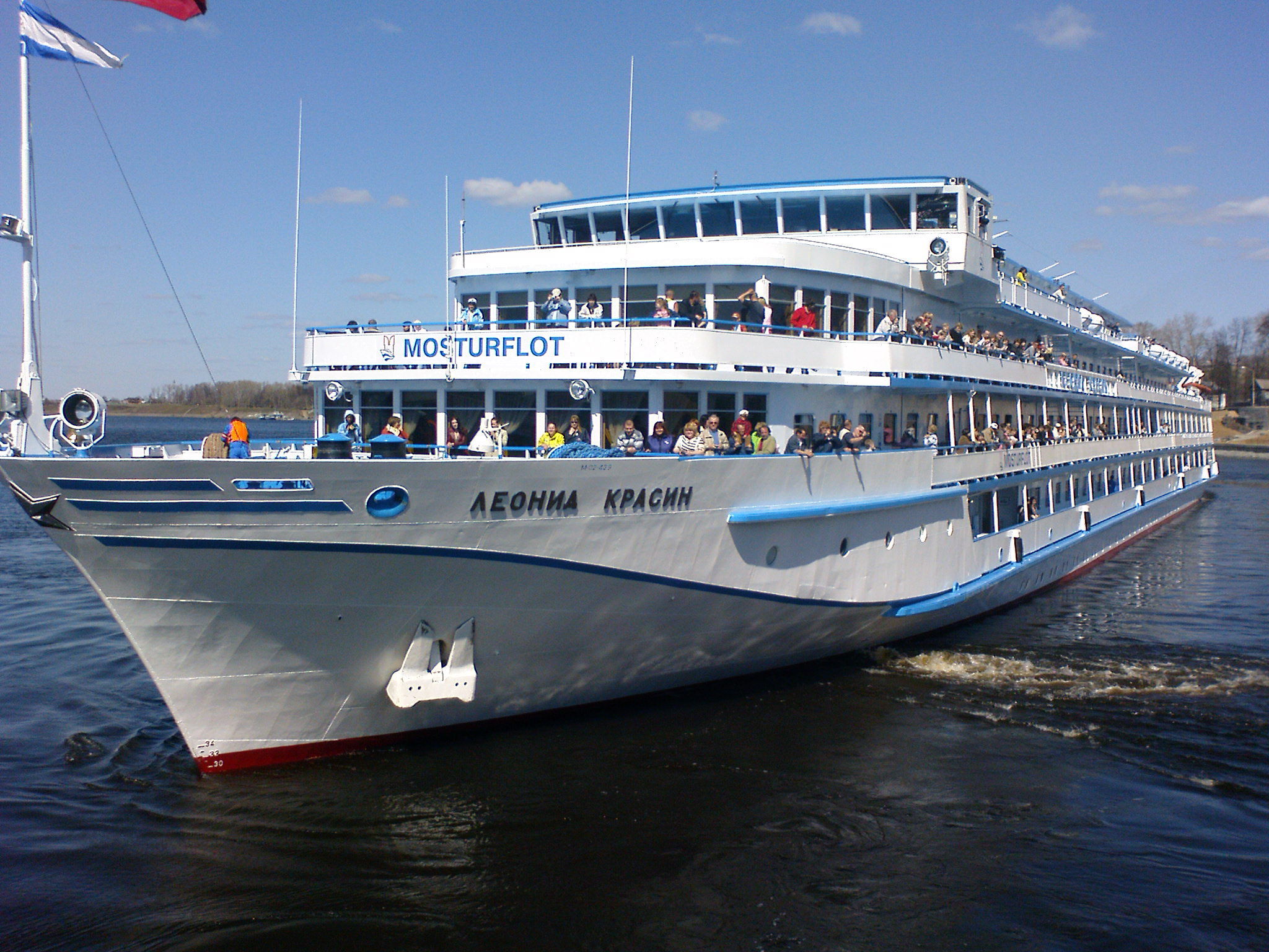 River cruise ship Leonid Krasin Project 302 from VEB Elbewerften Boizenburg / Rosslau (Germany)